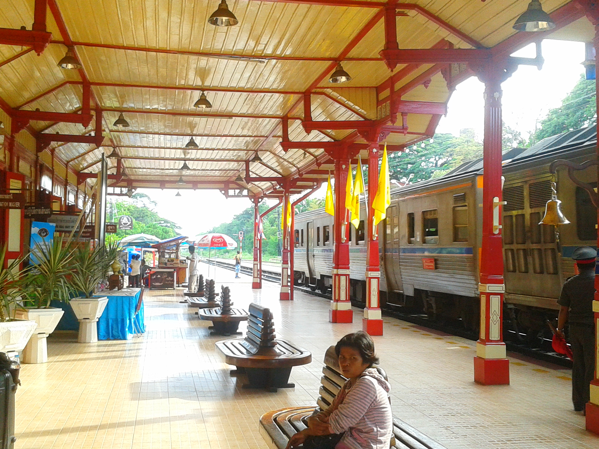 Hua Hin railway station on the State Railway of Thailand.